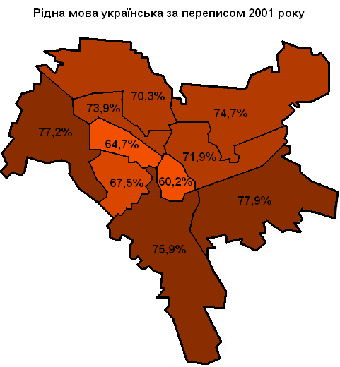 Ukrainian as native language in Kyiv' raions according to 2001 census